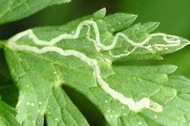 Phytomyza ranunculi from Commanster, Belgian High Ardennes .